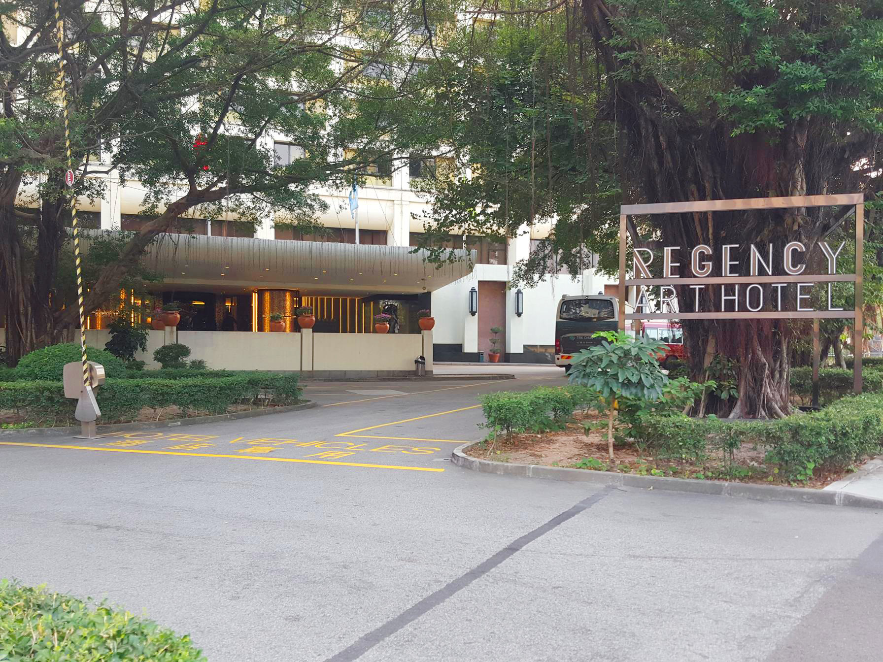 Regency Art Hotel